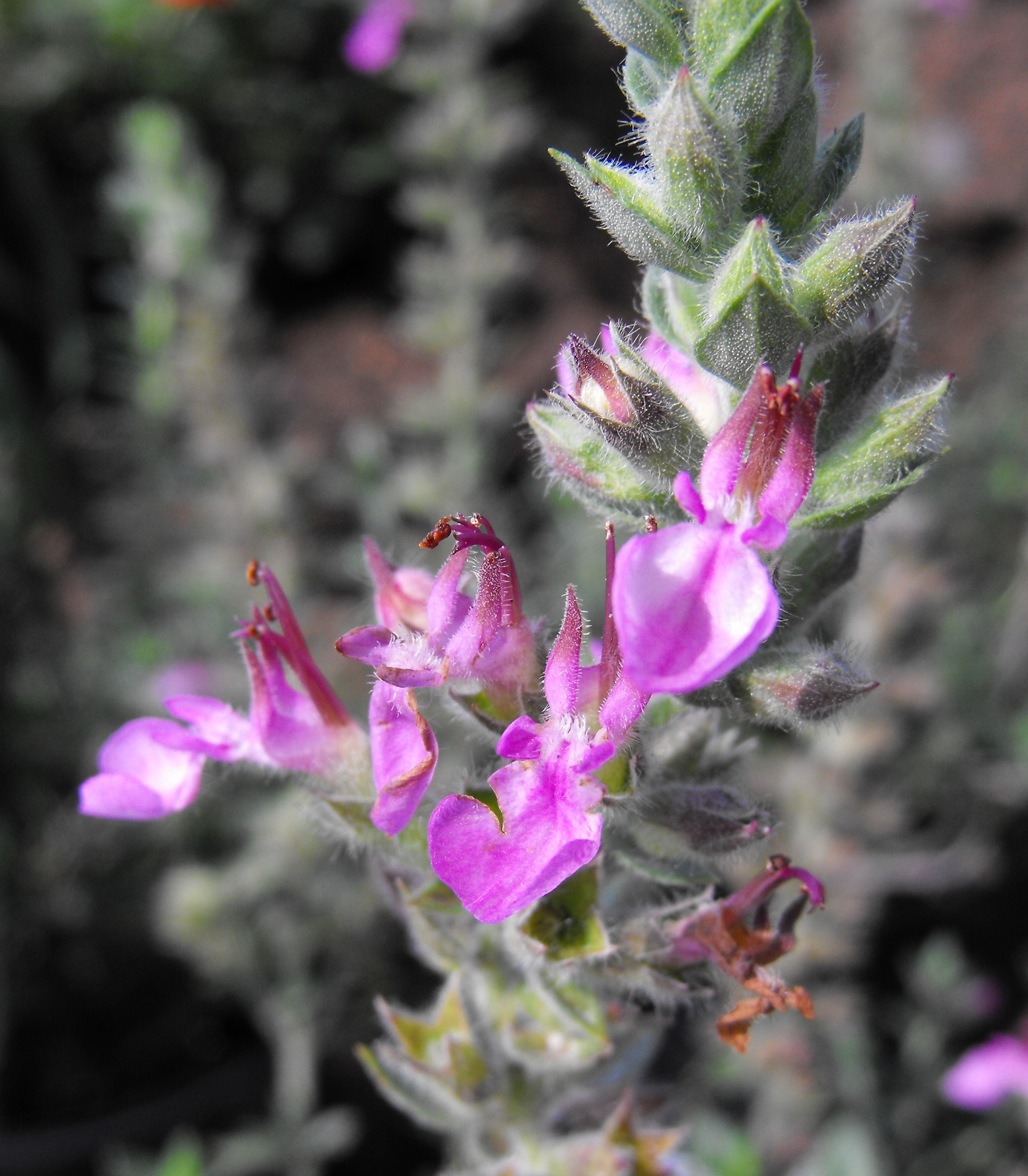 Teucrium chamaedrys at the San Diego Home & Garden Show, Del Mar, California, USA. Identified by exhibitor's sign.